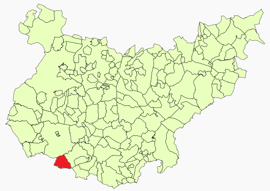 Higuera la Real